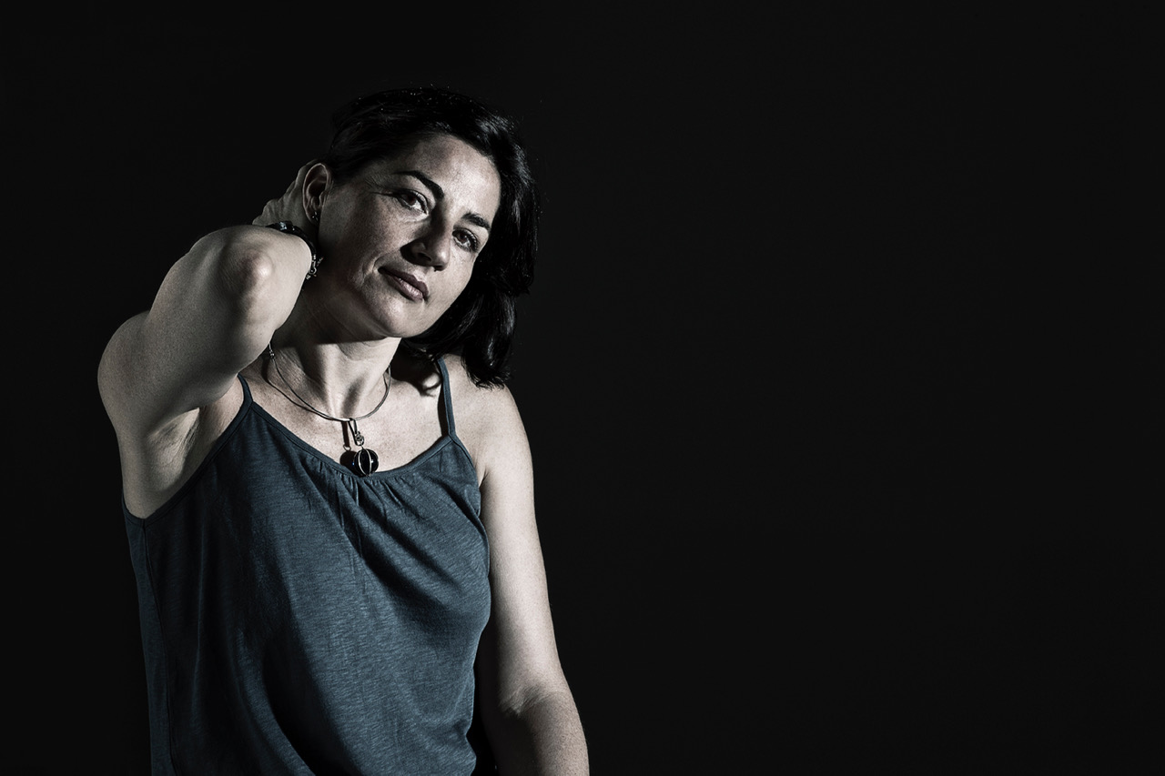 Artist from the land of Valencia